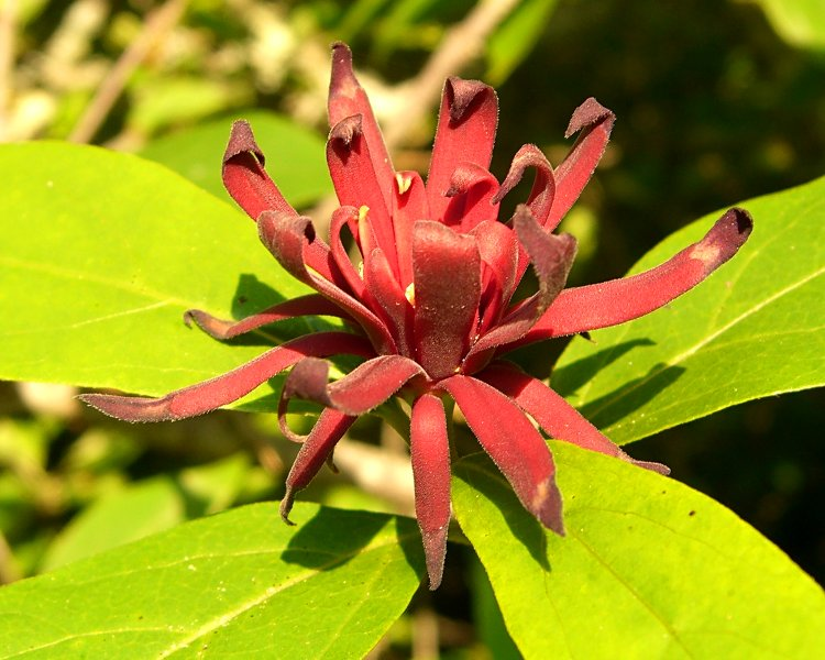 Scientific Name: Calycanthus floridus L. — common name: Eastern Sweetshrub, Eastern spicebush Location: Cabin Cove, Great Smoky Mountains of the Southern Appalachian Mountains, Southeastern U.S. Date: 06 09 2006. Certainty: positive (notes)